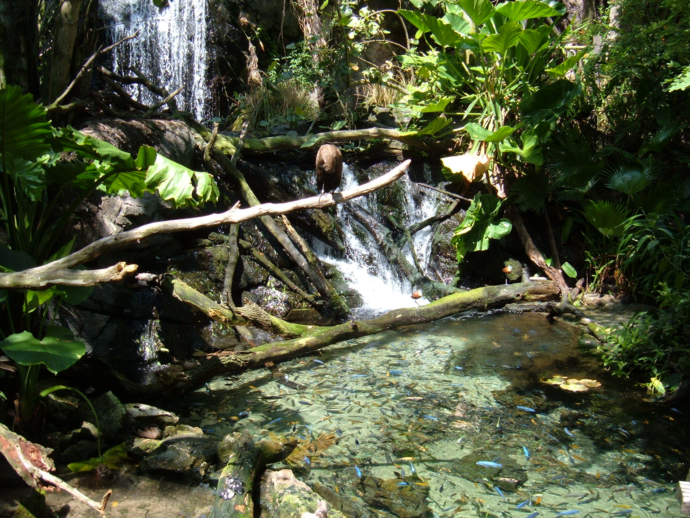 The Maharajah Jungle Trek in the Asia section of Disney's Animal Kingdom at the Walt Disney World Resort near Orlando, Florida.